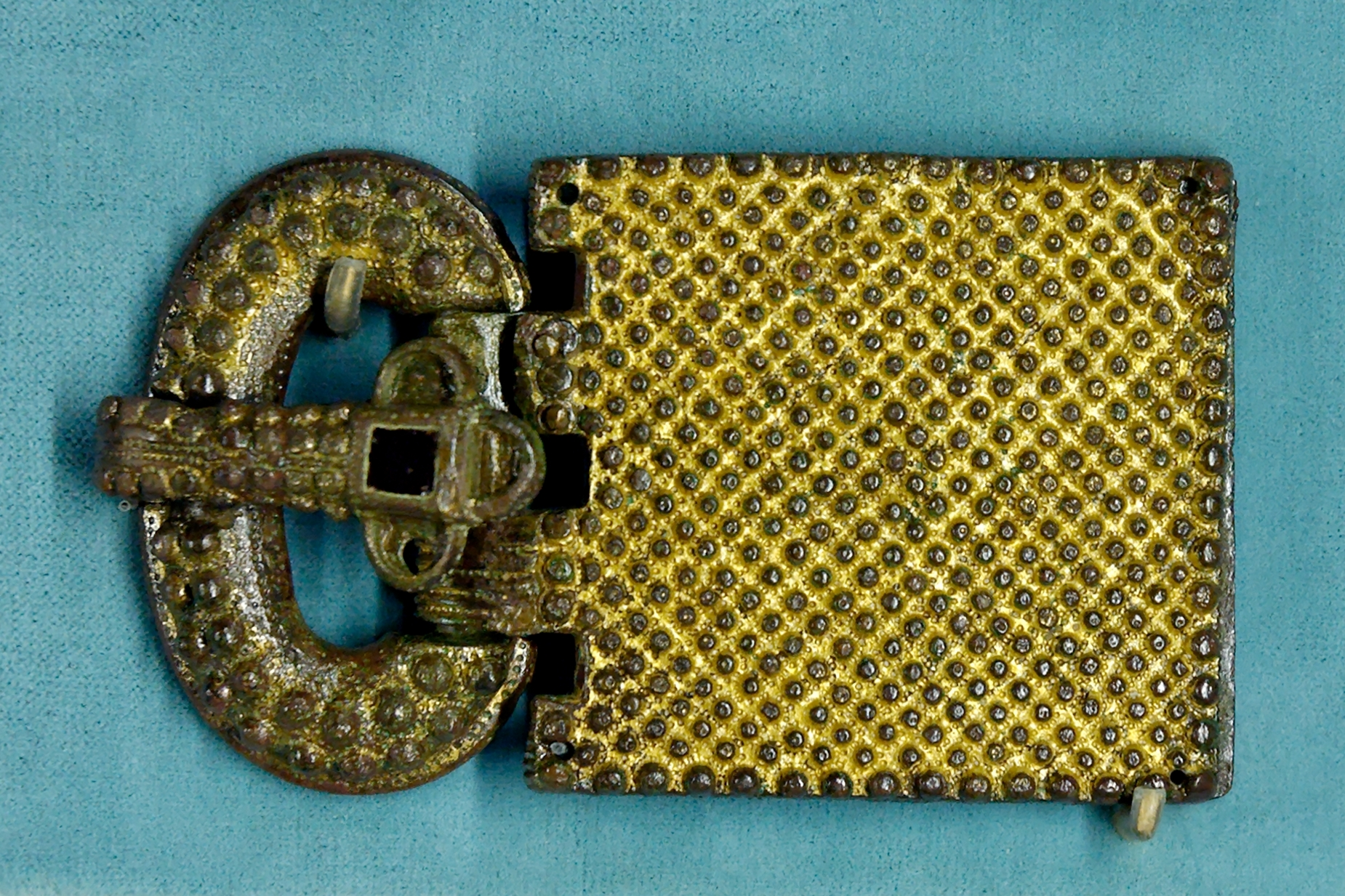 Belt buckle. Gilt and silvered bronze and glass paste, Visigothic Aquitaine, first half (?) of the 6th century. Found in 1868 in the Visigothic necropolis of Tressan, Provence.